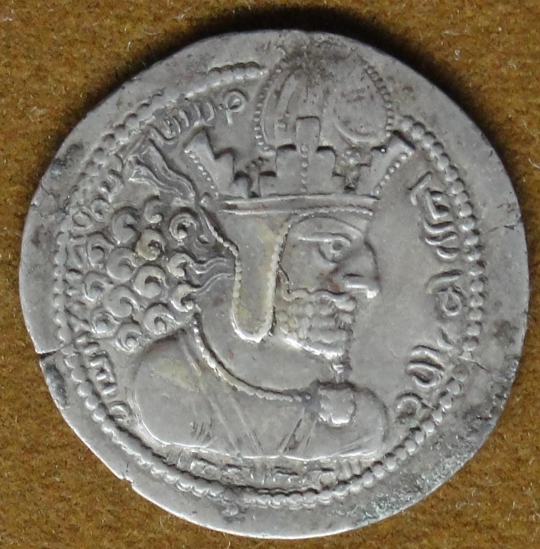 Shapur I Sassanid silver coin